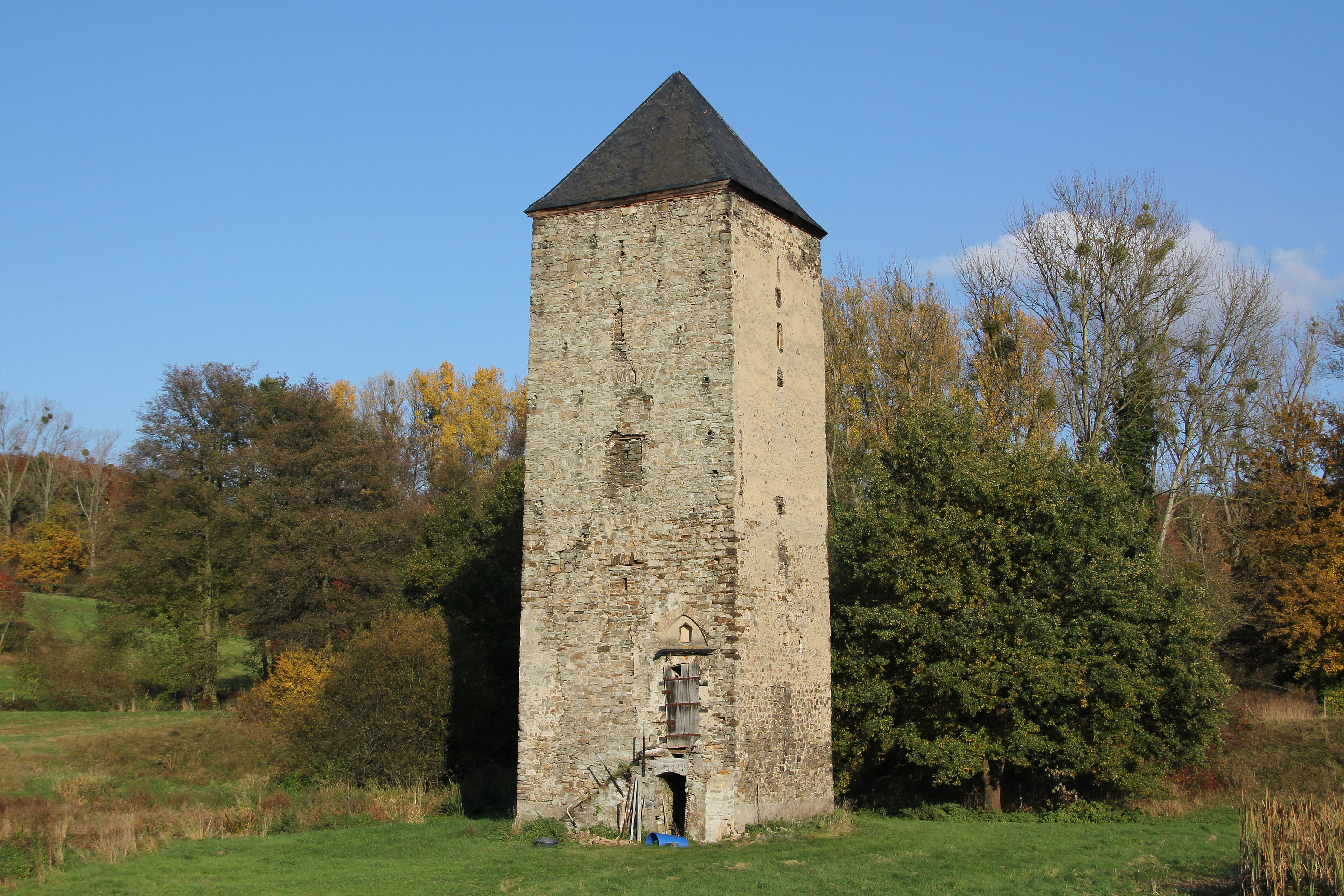 Burg Mühlenbach in Koblenz